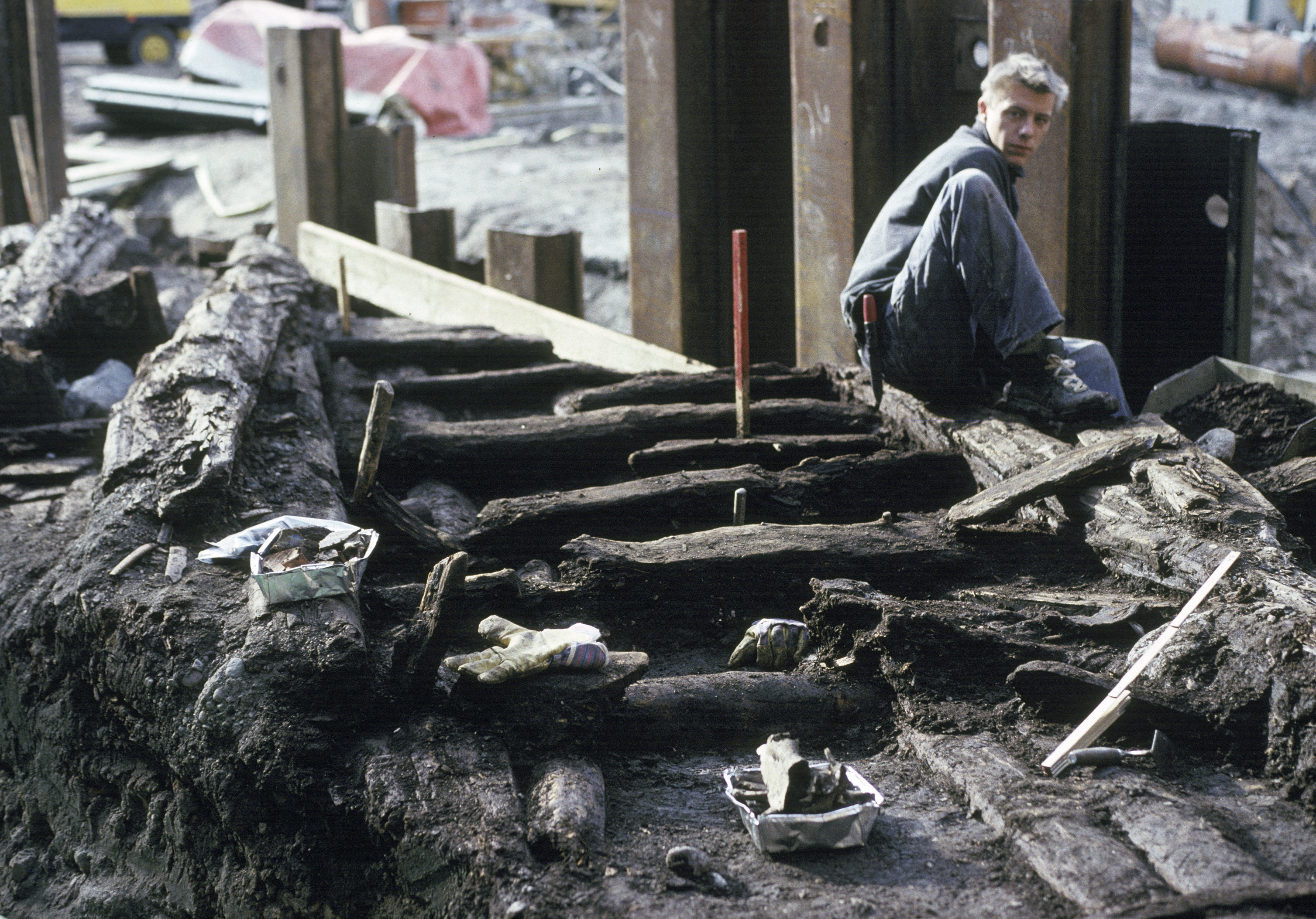 FOTOGRAFIArkeologisk undersökning i kvarteret Svalan. Här syns rester av väggar och golv i en svinstia från senare delen av 1500 - talet som har grävts fram. 1991-1991FOTOGRAF: Hedlund, John.BILDNUMMER: Dia 23396Stadsmuseet i Stockholm